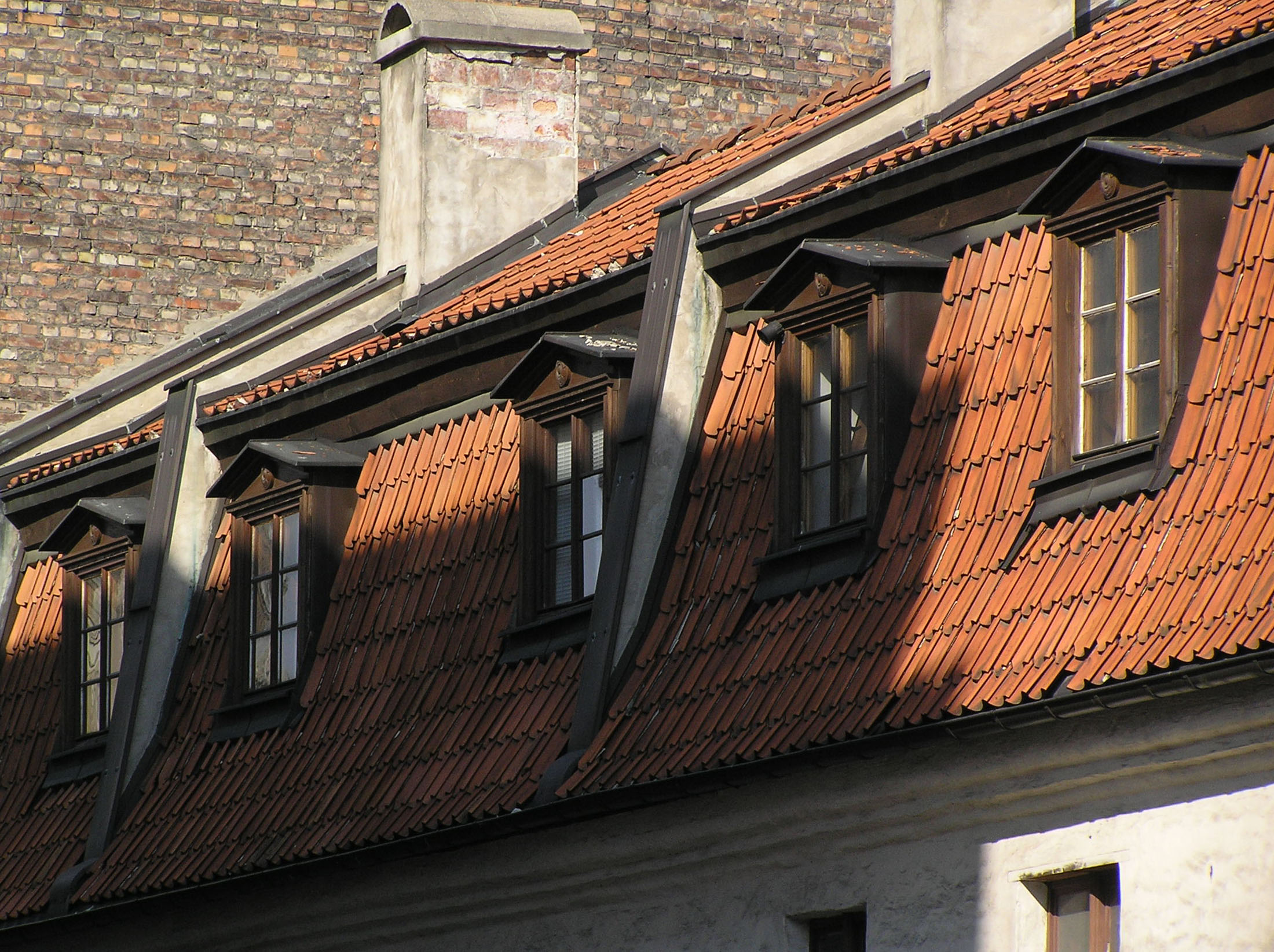 Toruń, houses at Most Pauliński Str., mansard roof